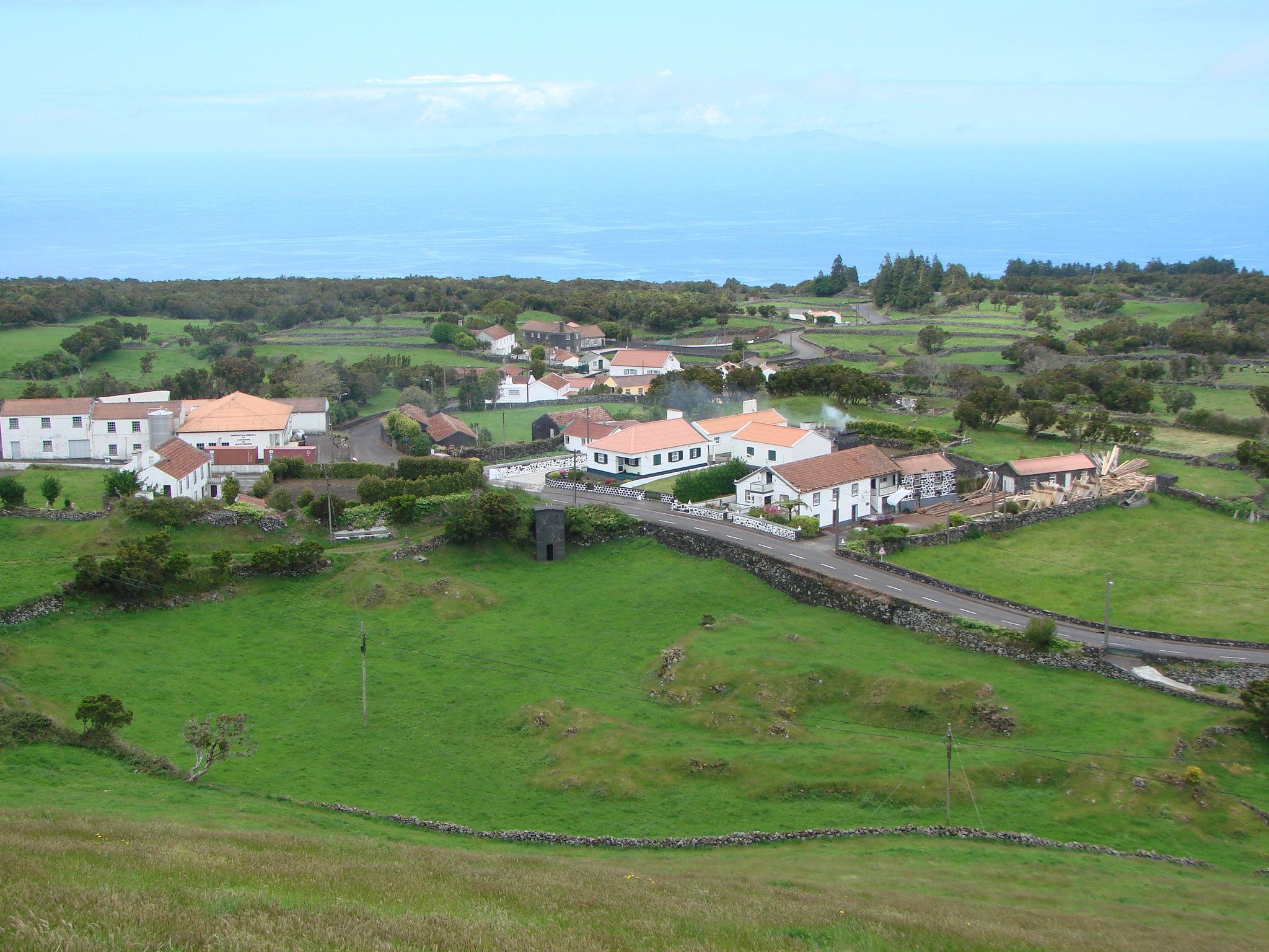 Norte Pequeno, 2011